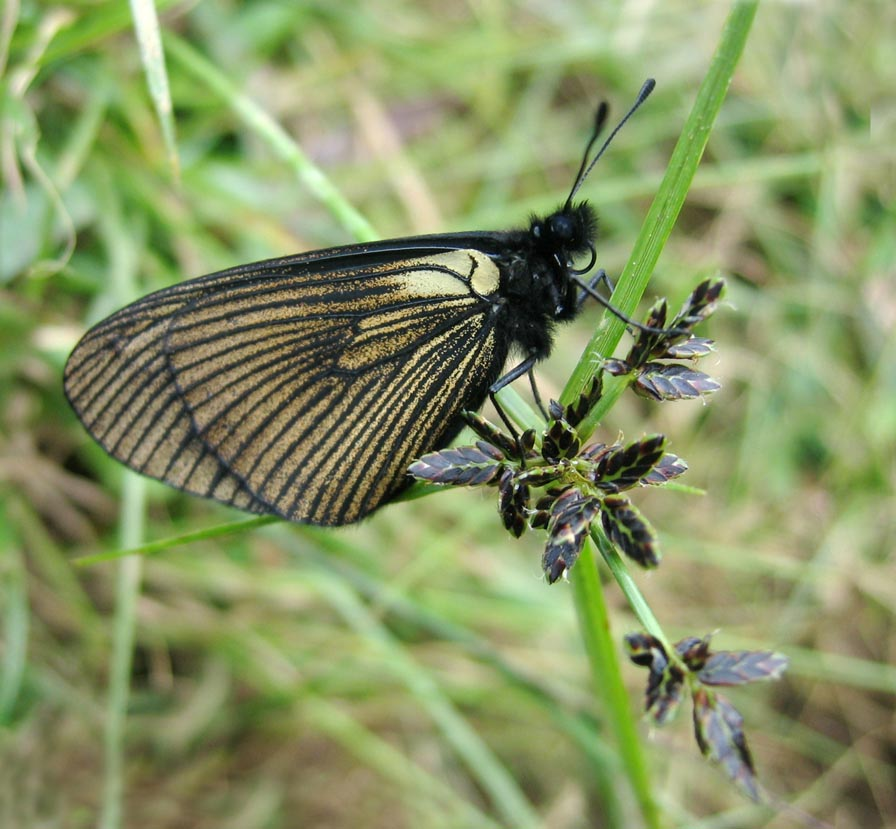 A butterfly on grass with nicely matching colours. Near Orosí, Costa Rica.